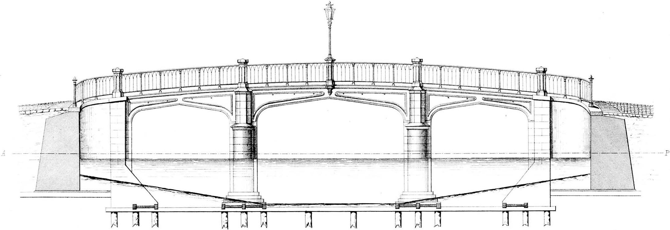 Bridge 68, Prinsengracht/Leidsestraat, Amsterdam. 1860 (design), 1860-1861 (construction).